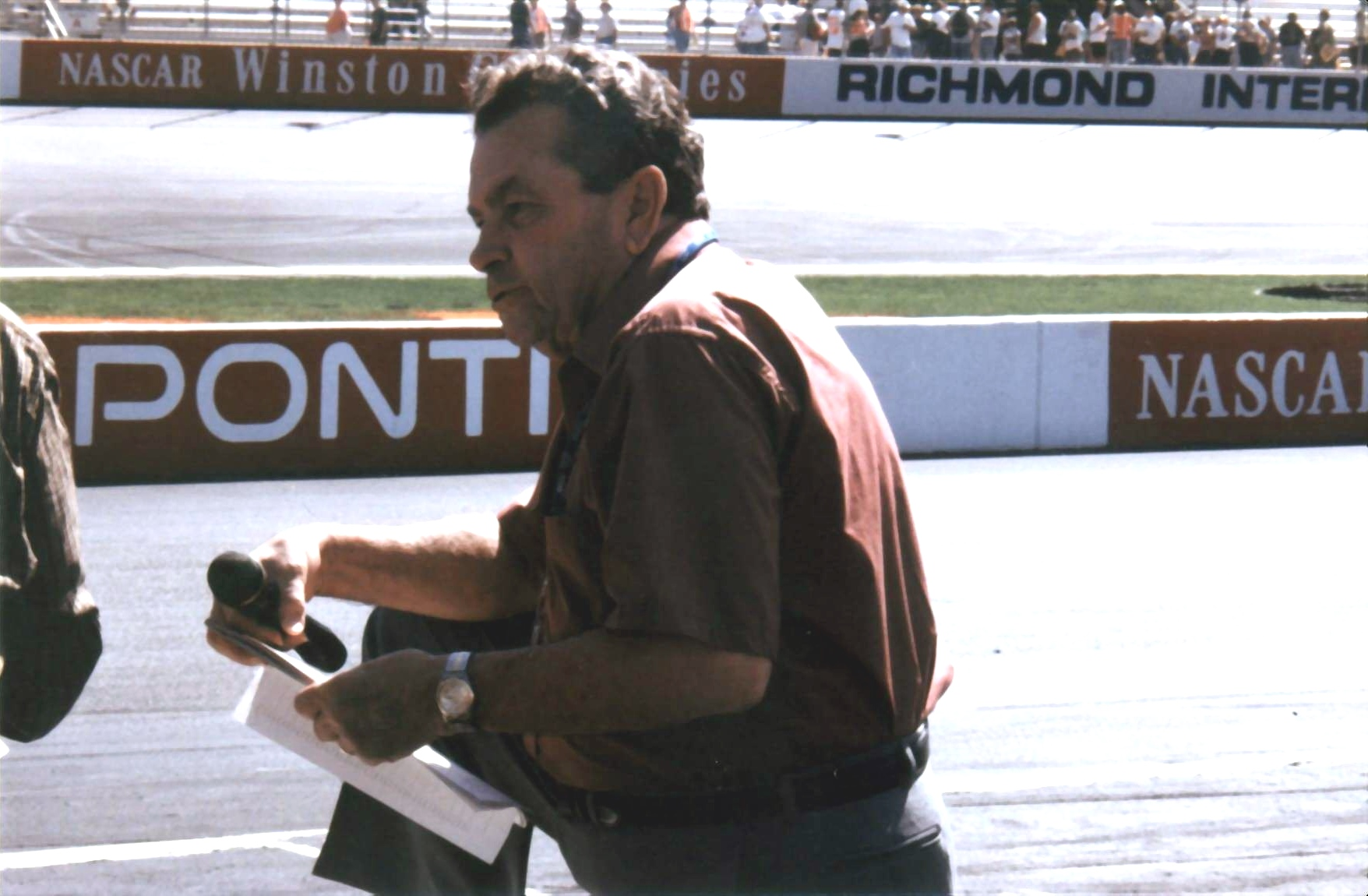 Sammy Bland at Richmond International Raceway